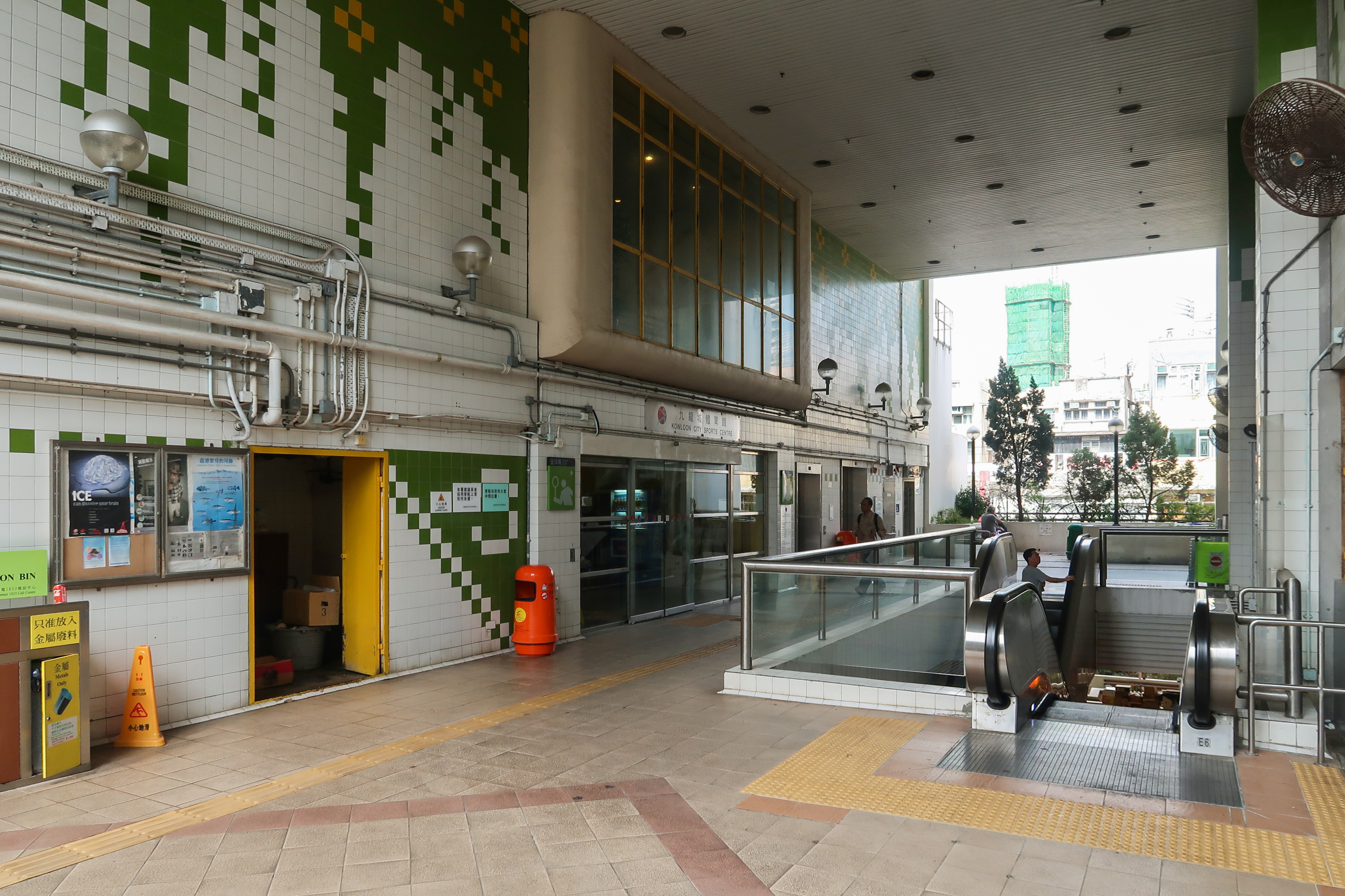 Kowloon City Municipal Services Building